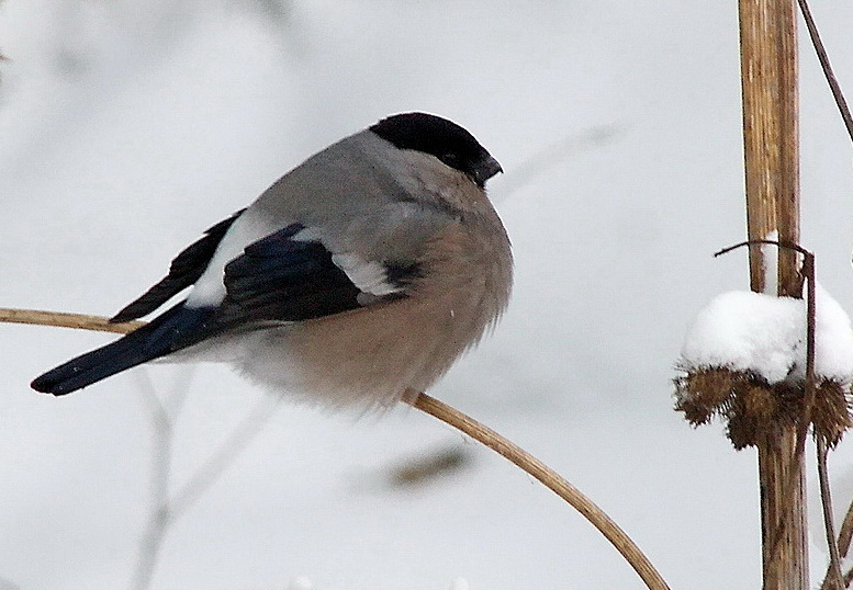 Самка серого снегиря. Иркутск.